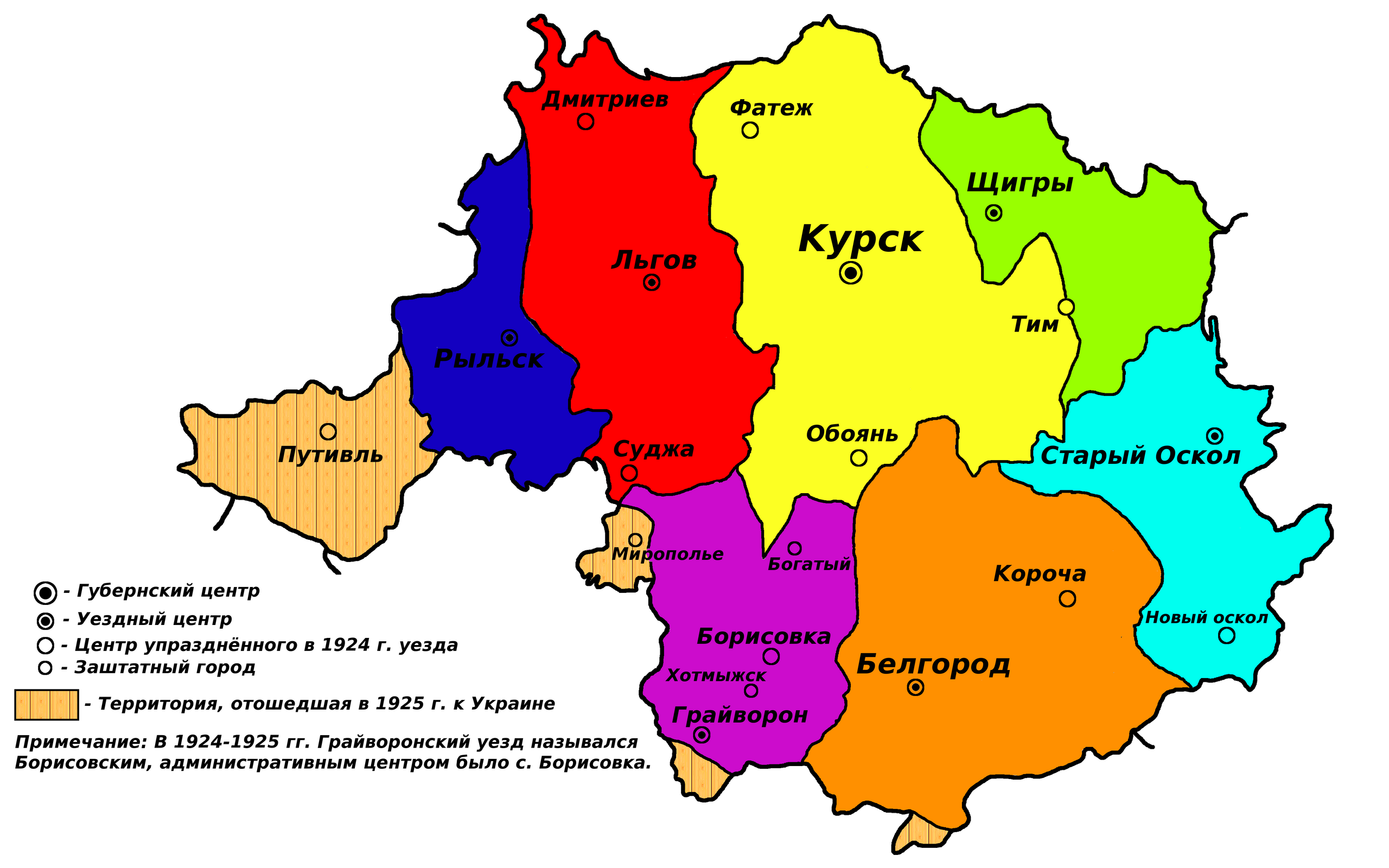 Kursk gubernia (RSFSR, 1924-1928)